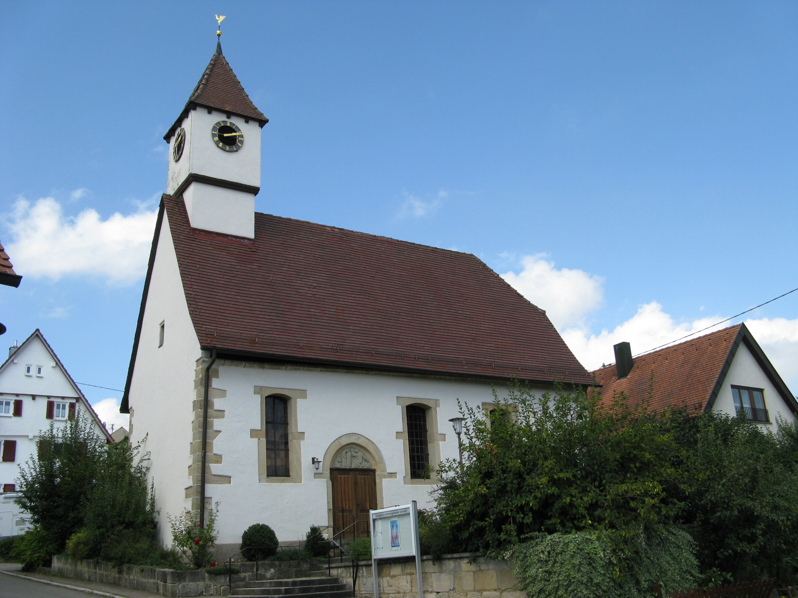 Dörnach (local center of Pliezhausen, Germany)- protestantic church